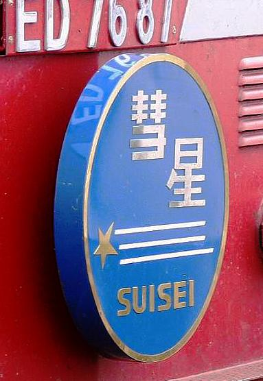 Head mark of West Japan Railway Limited express Suisei. At Minami-Miyazaki Station, Nippō Main Line on September 30, 2005, the day on which the train discontinued its operation.